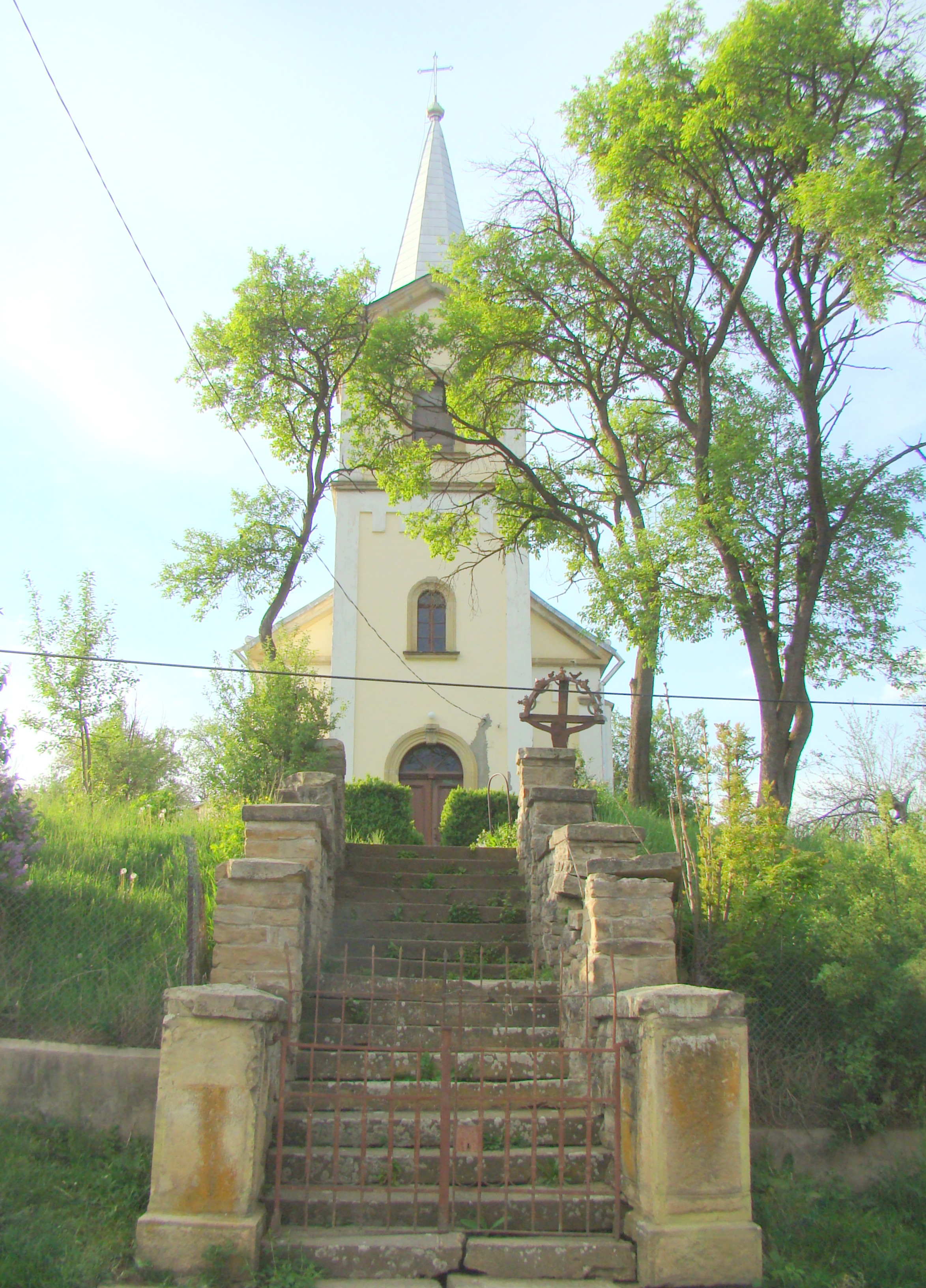 Matei, Bistrița-Năsăud county, Romania